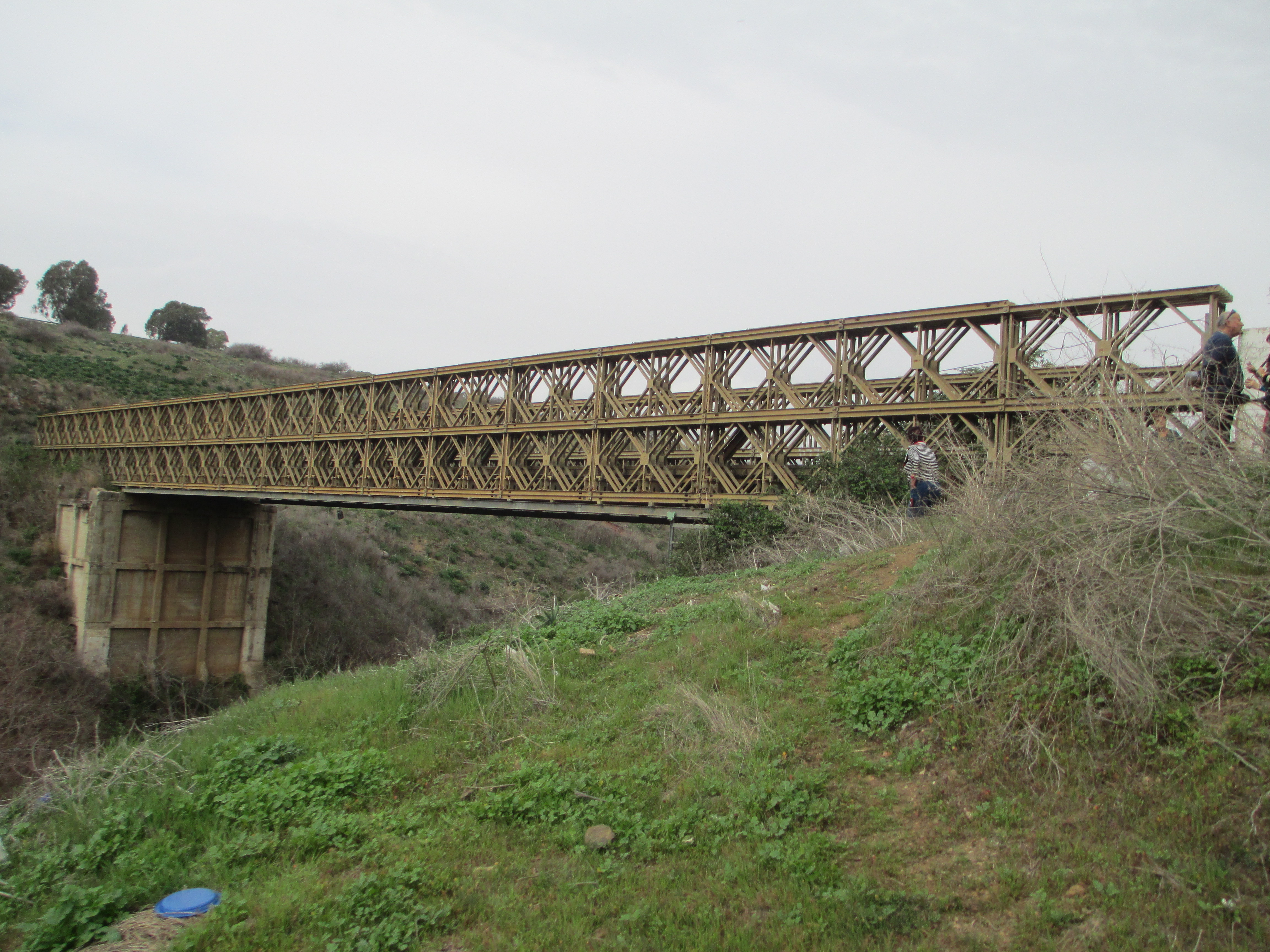 Bnot Ya'akov Bridge